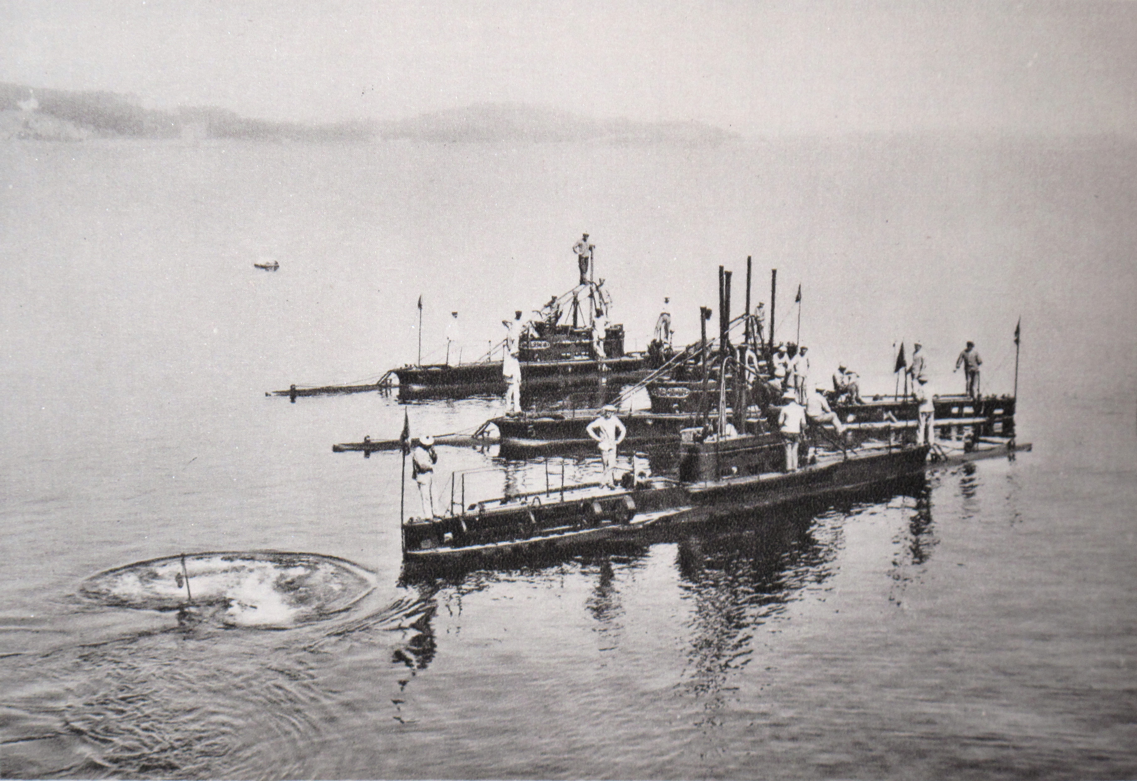 French ship Grondin